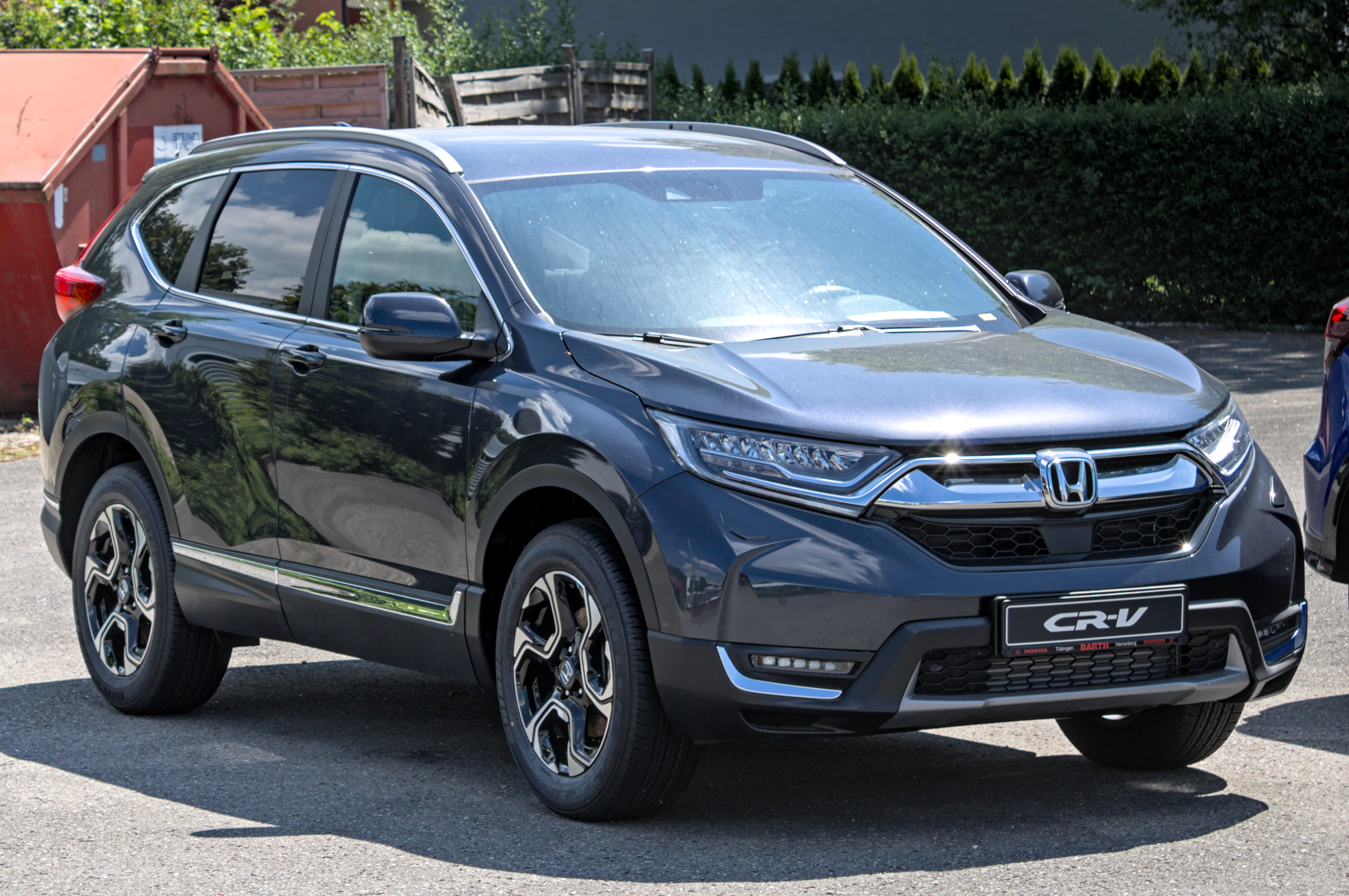 Honda_CR-V_(5th_generation) in Herrenberg